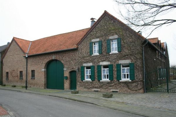 Cultural heritage monument No. 34 in Selfkant